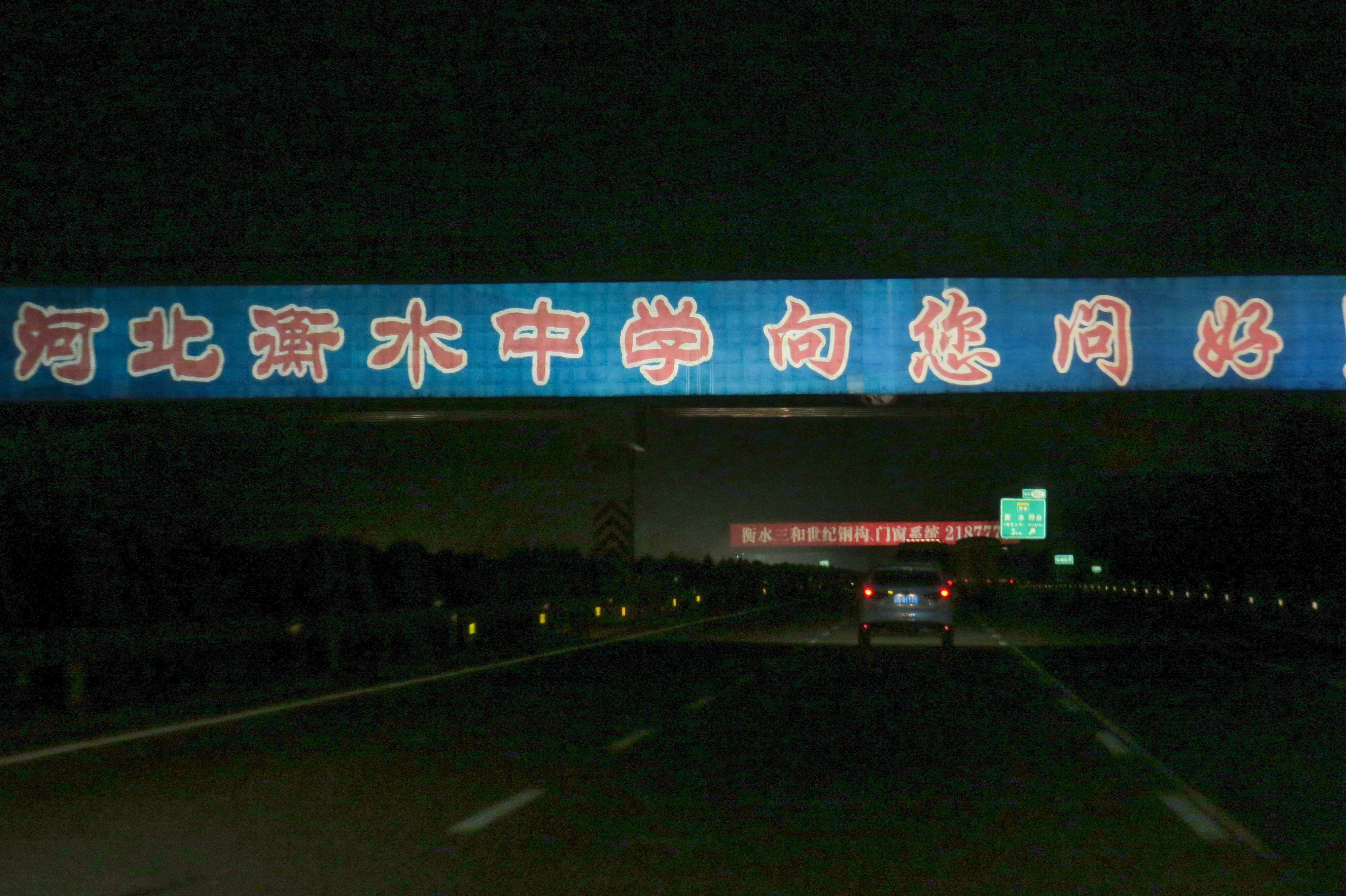 What is Hengshui reputed for? Old liquor, and schools. The best known, no doubt, Hengshui High School (Hengzhong). Taken on G45 after passing three banners of schools.